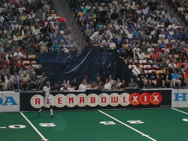 Clay Rush ArenaBowl XIX Colorado Crush 2005